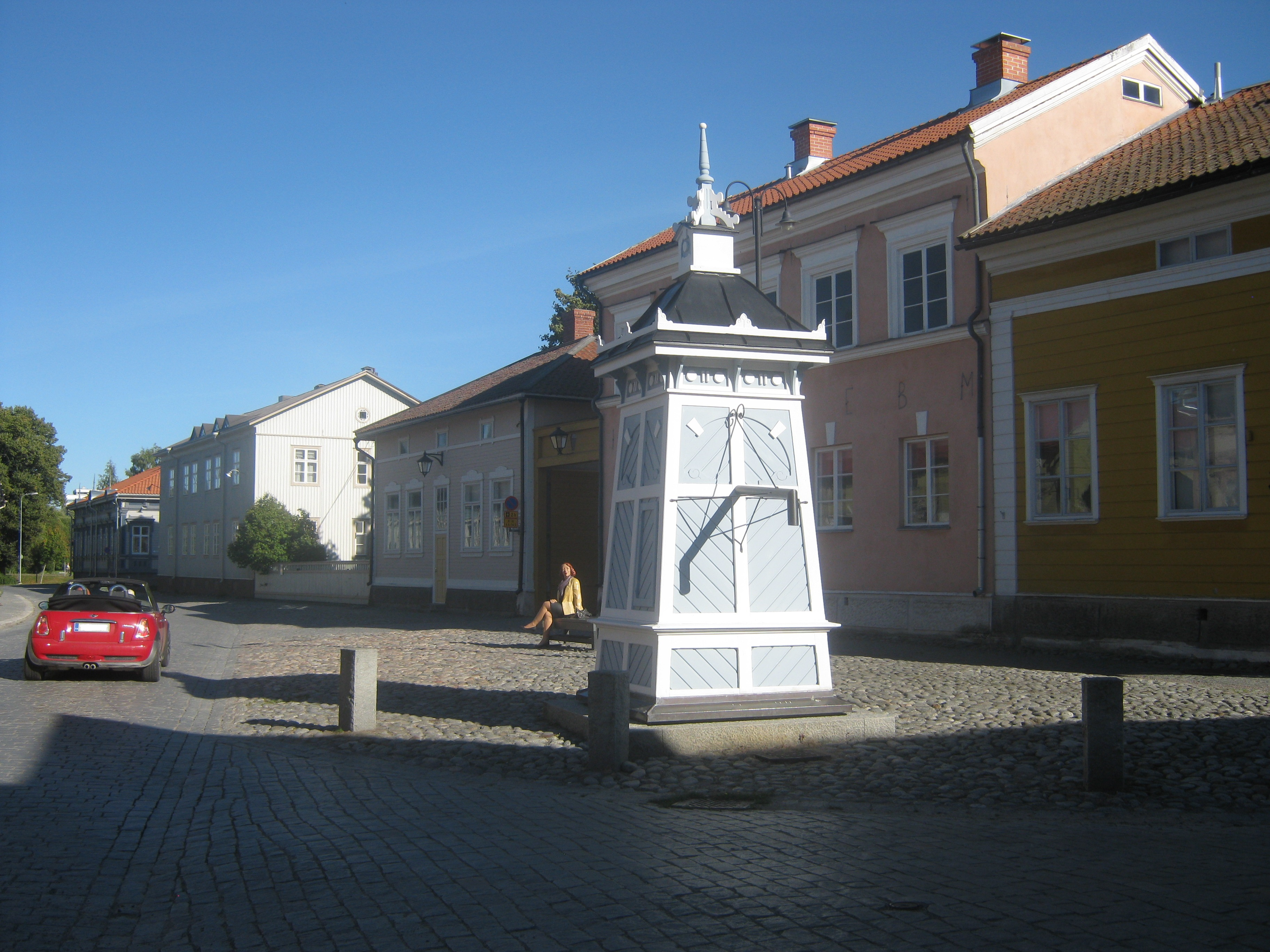 Hauenguano square at UNESCO World Heritage site Old Rauma, Finland.